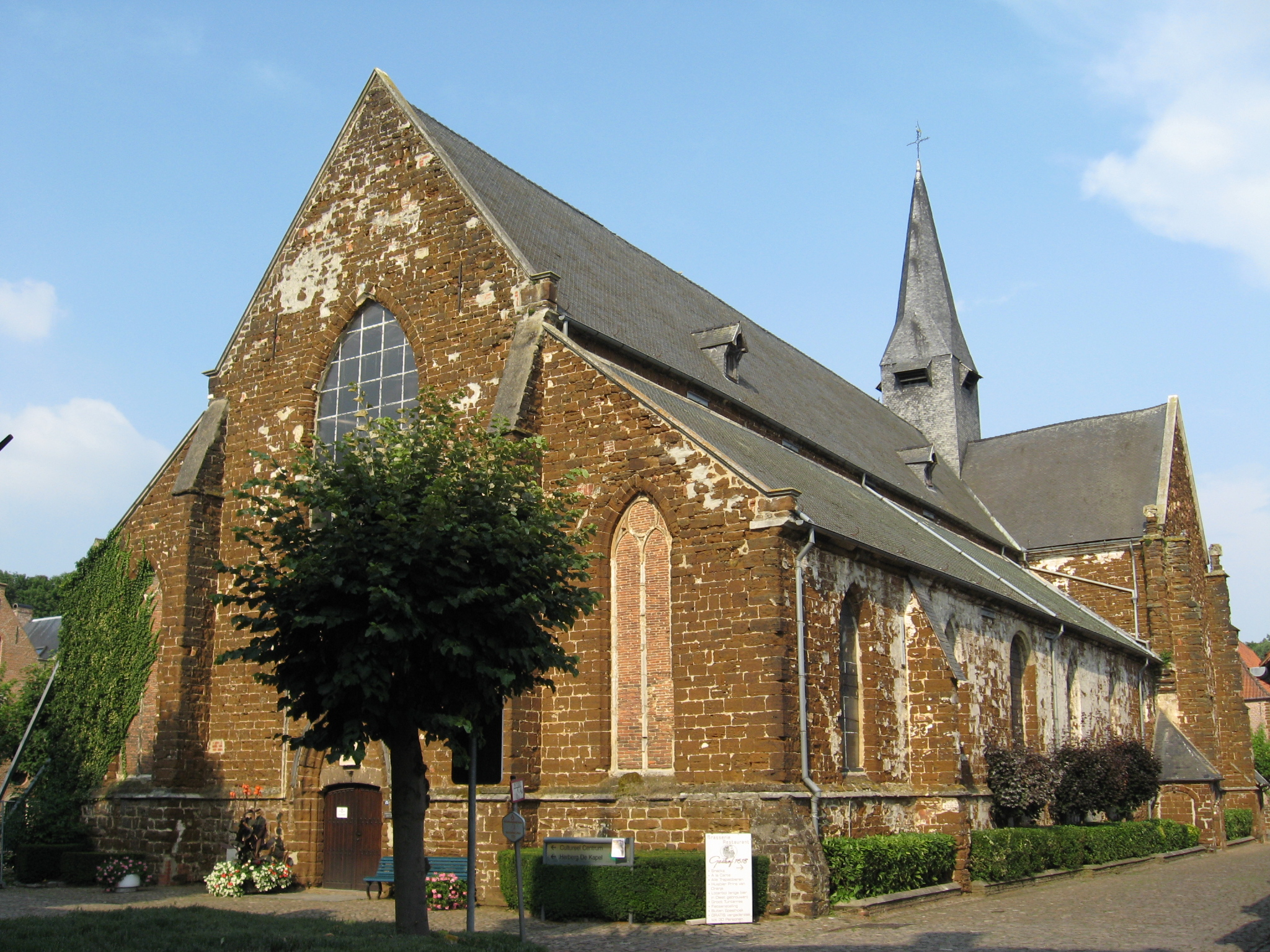 Church of Saint Catherine in Diest, Flemish Brabant, Belgium